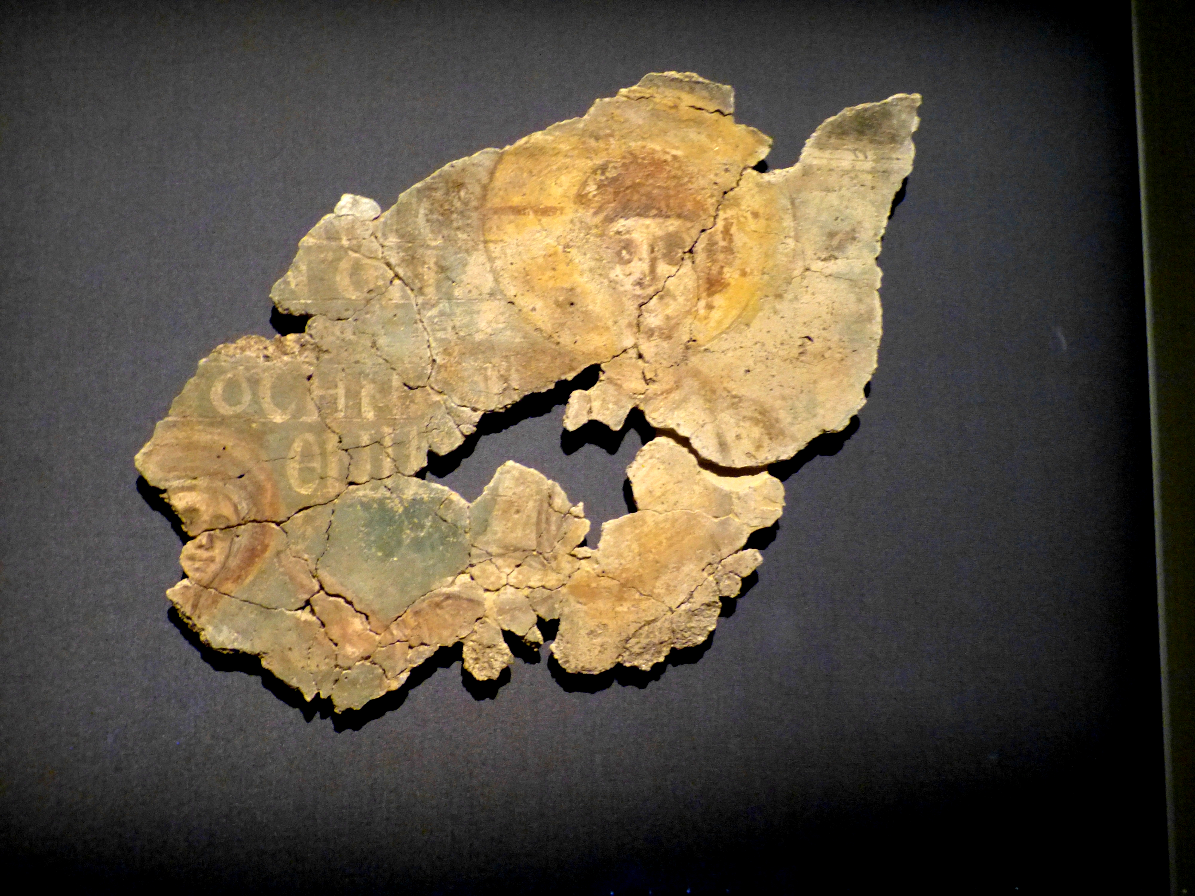 Vienna ( Austria ). Kunsthistorisches Museum: Fragment of a paleochristian fresco ( 6th century AD ), showing Christ blessing a woman, from the grave of Lukas in Ephesus ( Turkey ); Inv.-Nr.V 2058